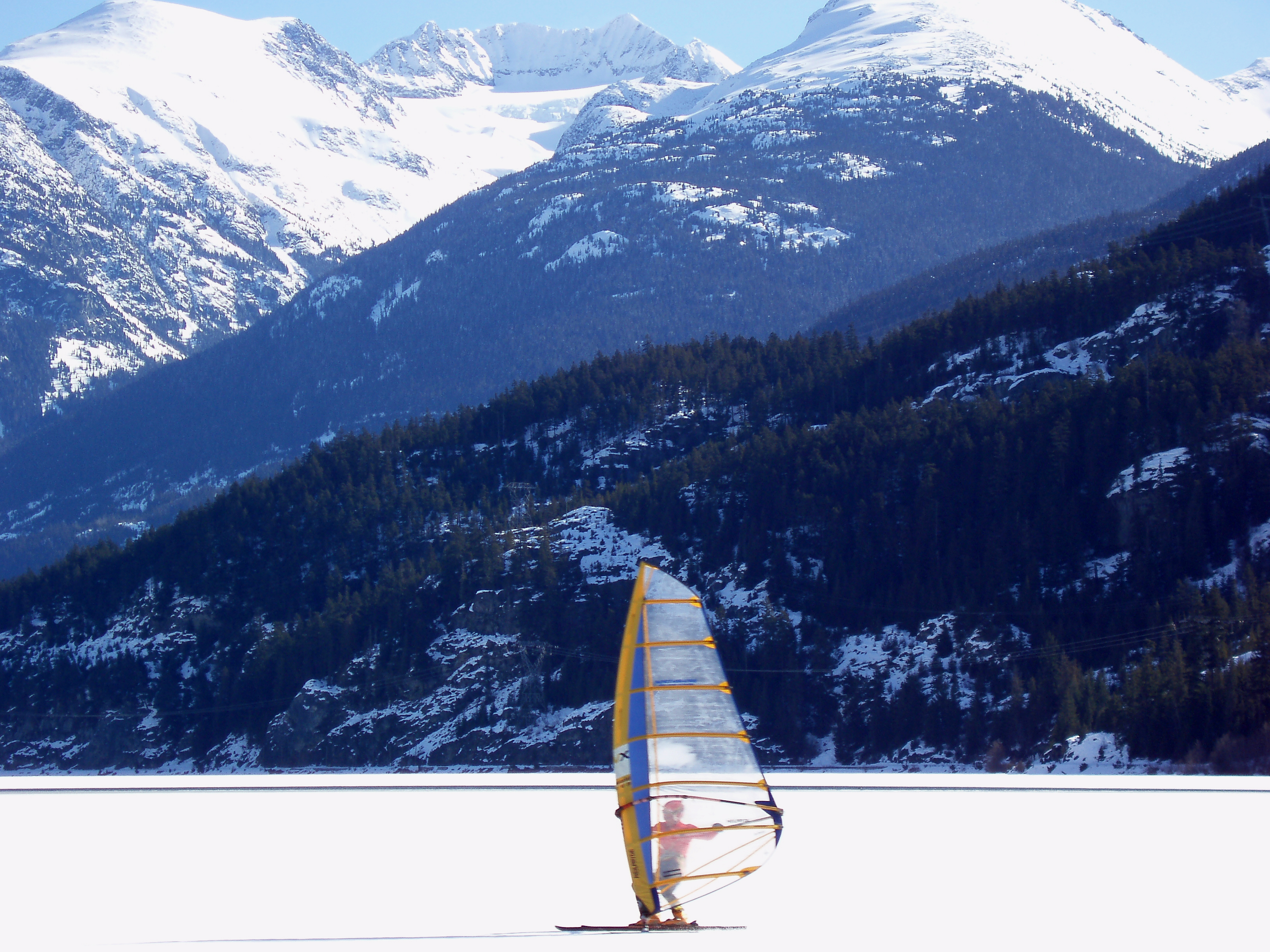 "Zooming across frozen Green Lake near Whistler, British Columbia, Canada."